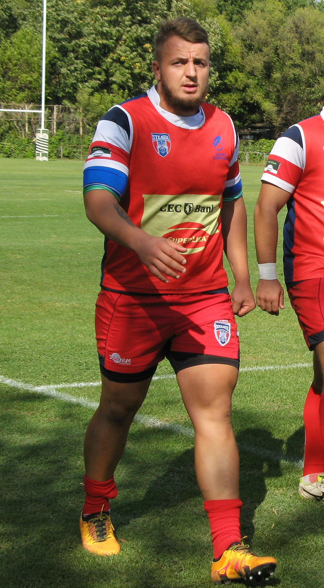 Romanian rugby union football player Damian Strătilă, player of CSA Steaua București rugby club seen before a match against CSM Baia Mare in Round 5 of Romanian Rugby SuperLiga in September 2017